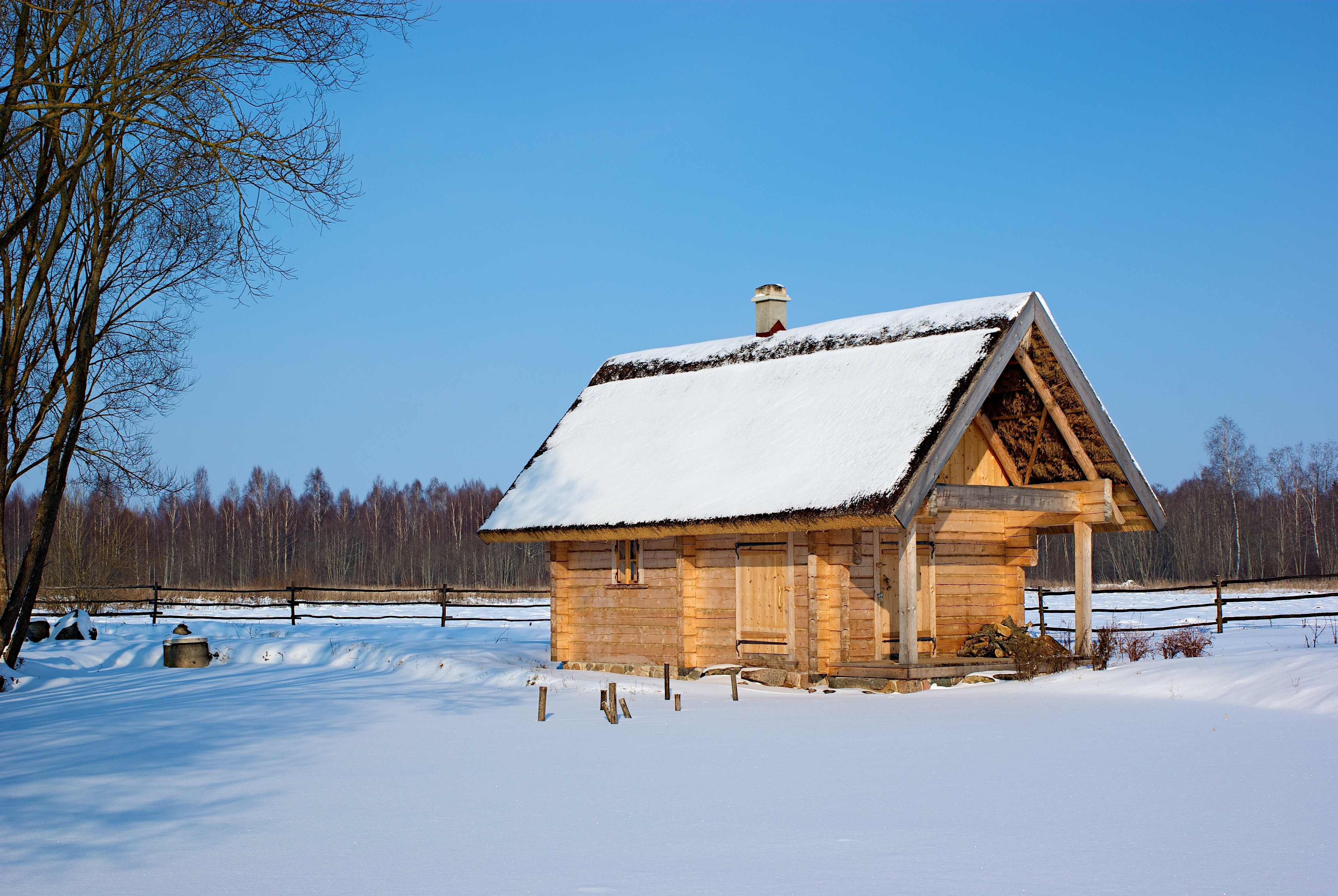 A Latvian sauna house "pirts" covered by snow.